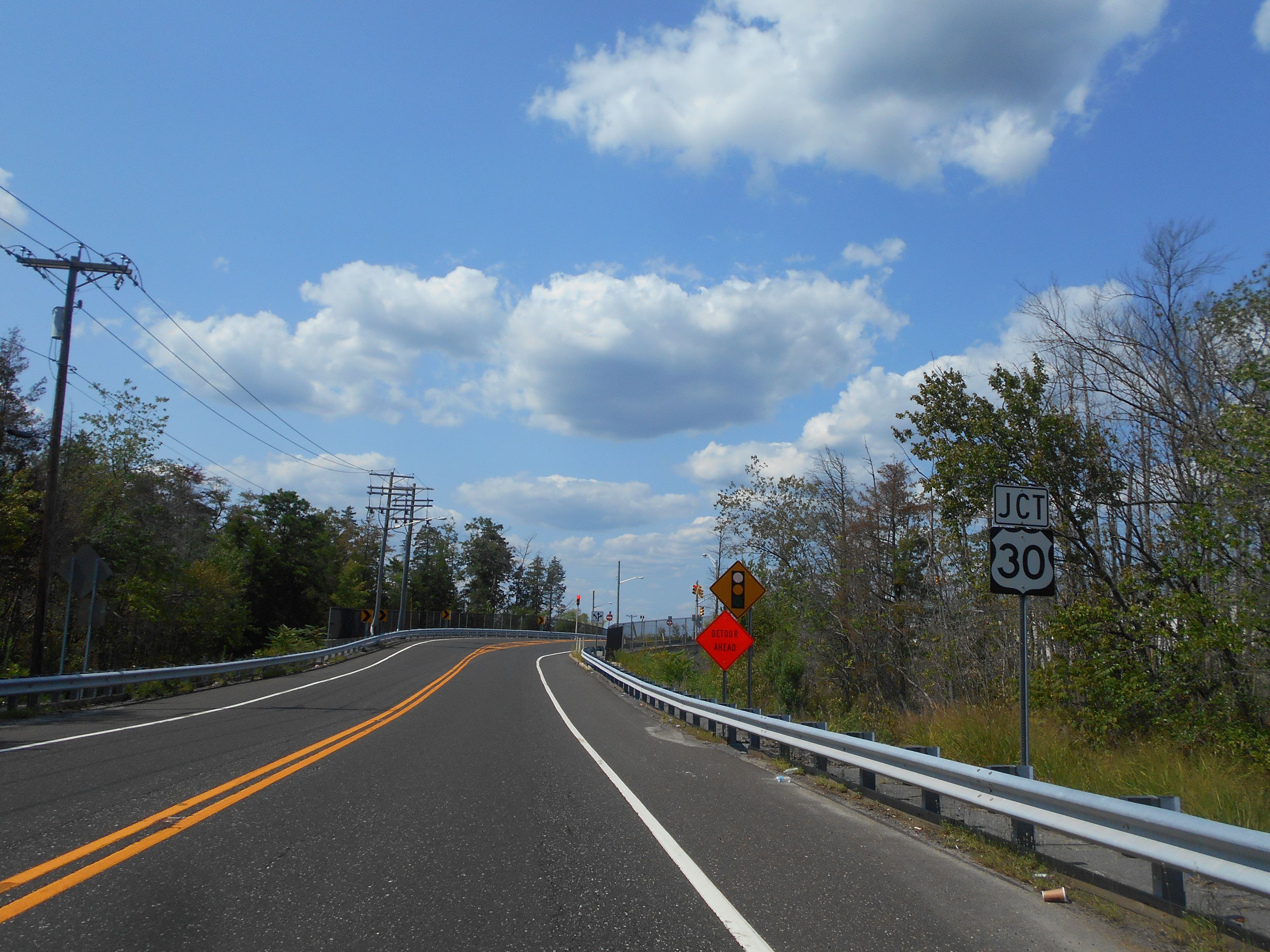 Route 143 north approaching US 30 in Winslow Township, New Jersey.